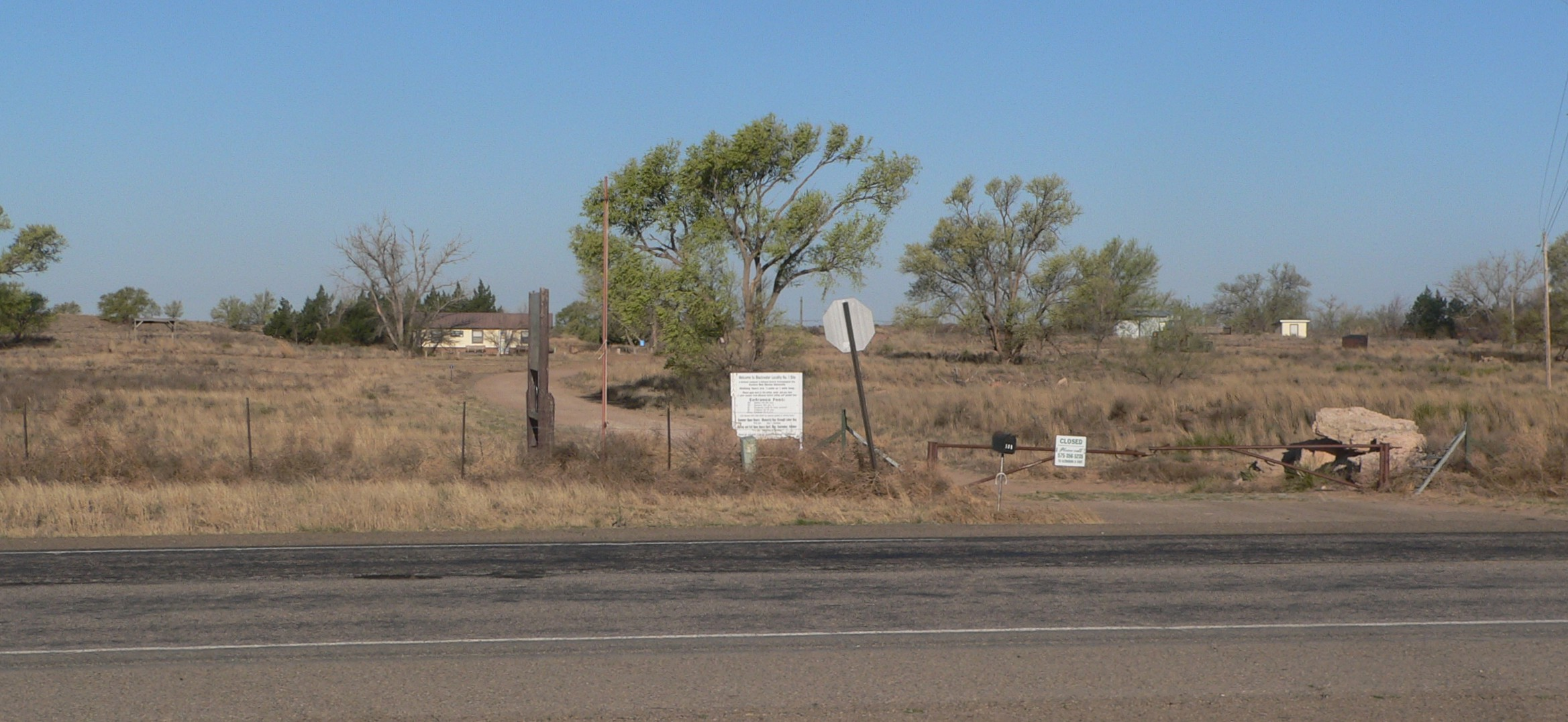 Entrance to Blackwater Draw archaeological site, on west side of New Mexico Highway 467 north of Portales, New Mexico.